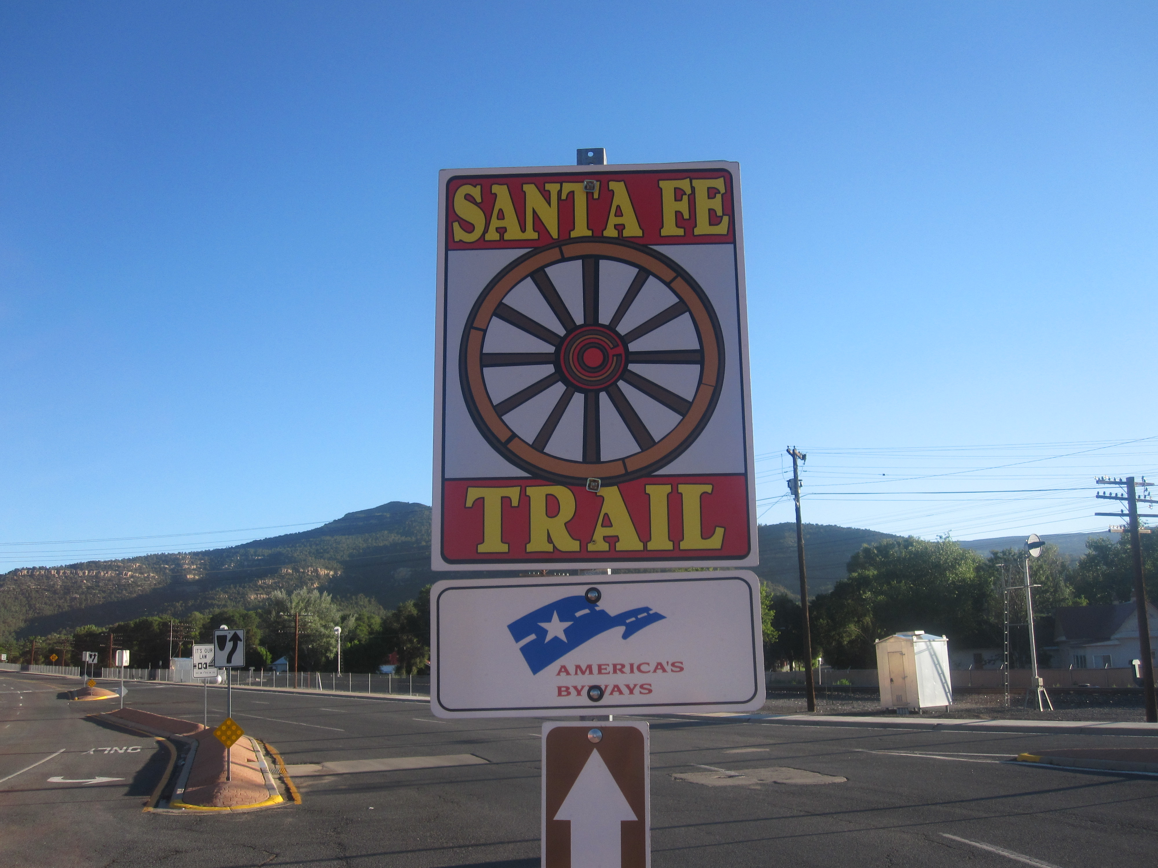 I took photo in Raton, NM, with Canon camera.